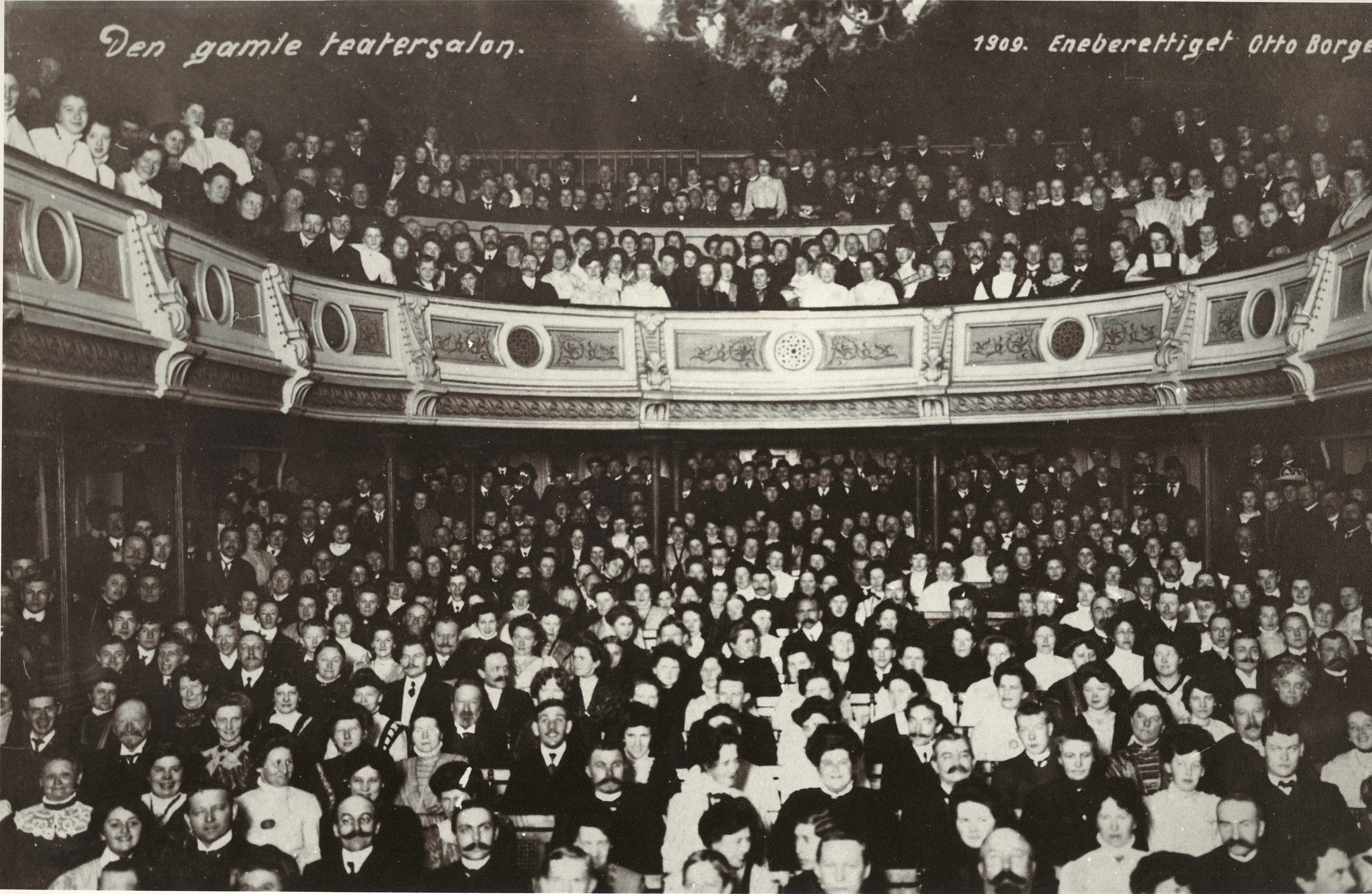 Artist: Otto Borge Date/place: 1909, Bergen/Norway Subject: the old Theatre Hall Medium: photographic postitive, B&W Original belongs to the Theatre Archive at the University of Bergen